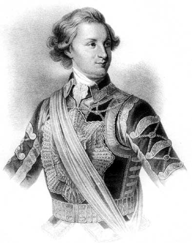 Russian statesman Grigory Potemkin (1739-1791)